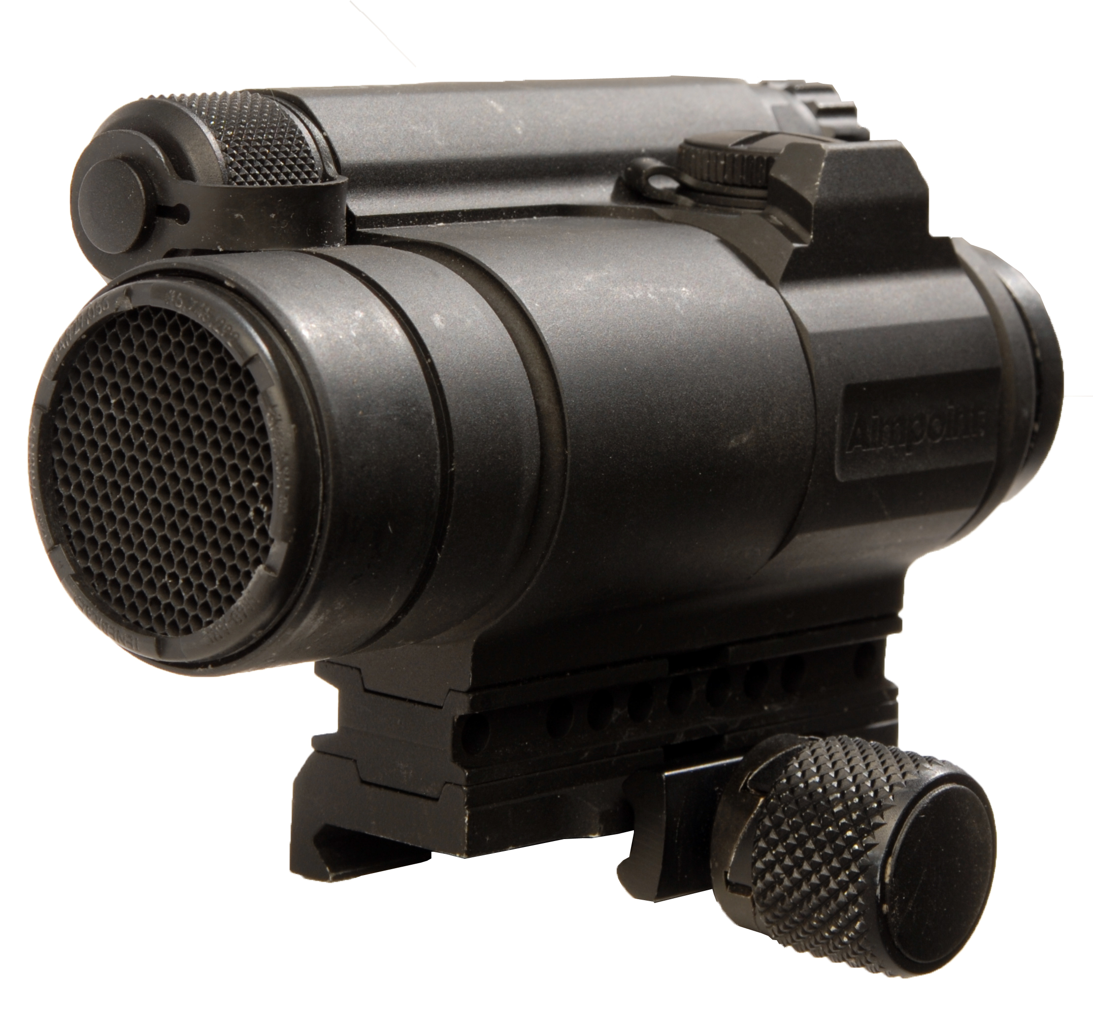 The M68 Close Combat Optic (CCO) is a red dot aiming device for an M16 series rifle or M4 Carbine that enhances Soldier battlefield situational awareness and target acquisition speed.